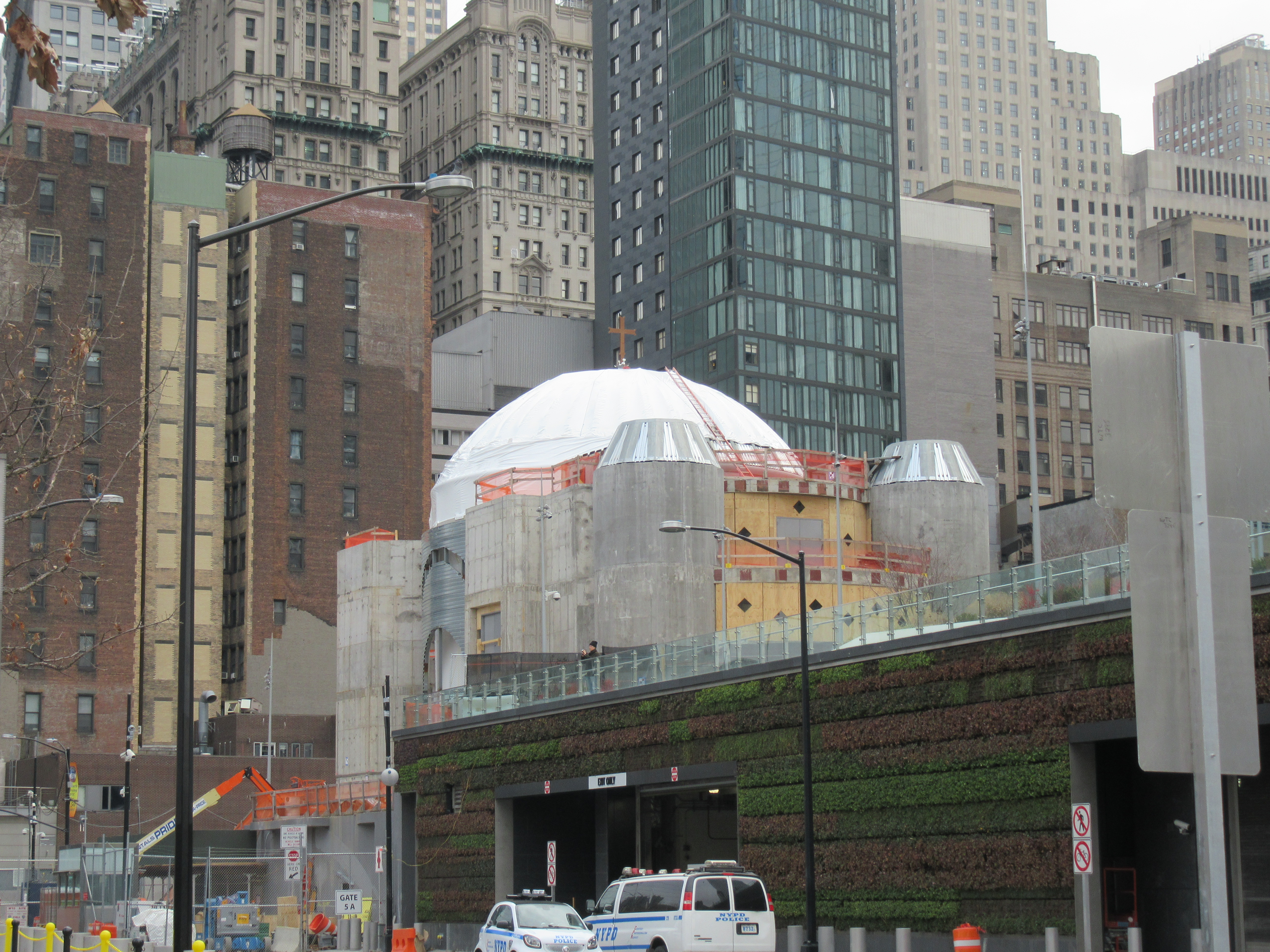 St. Nicholas Greek Orthodox Church during construction in February 2017